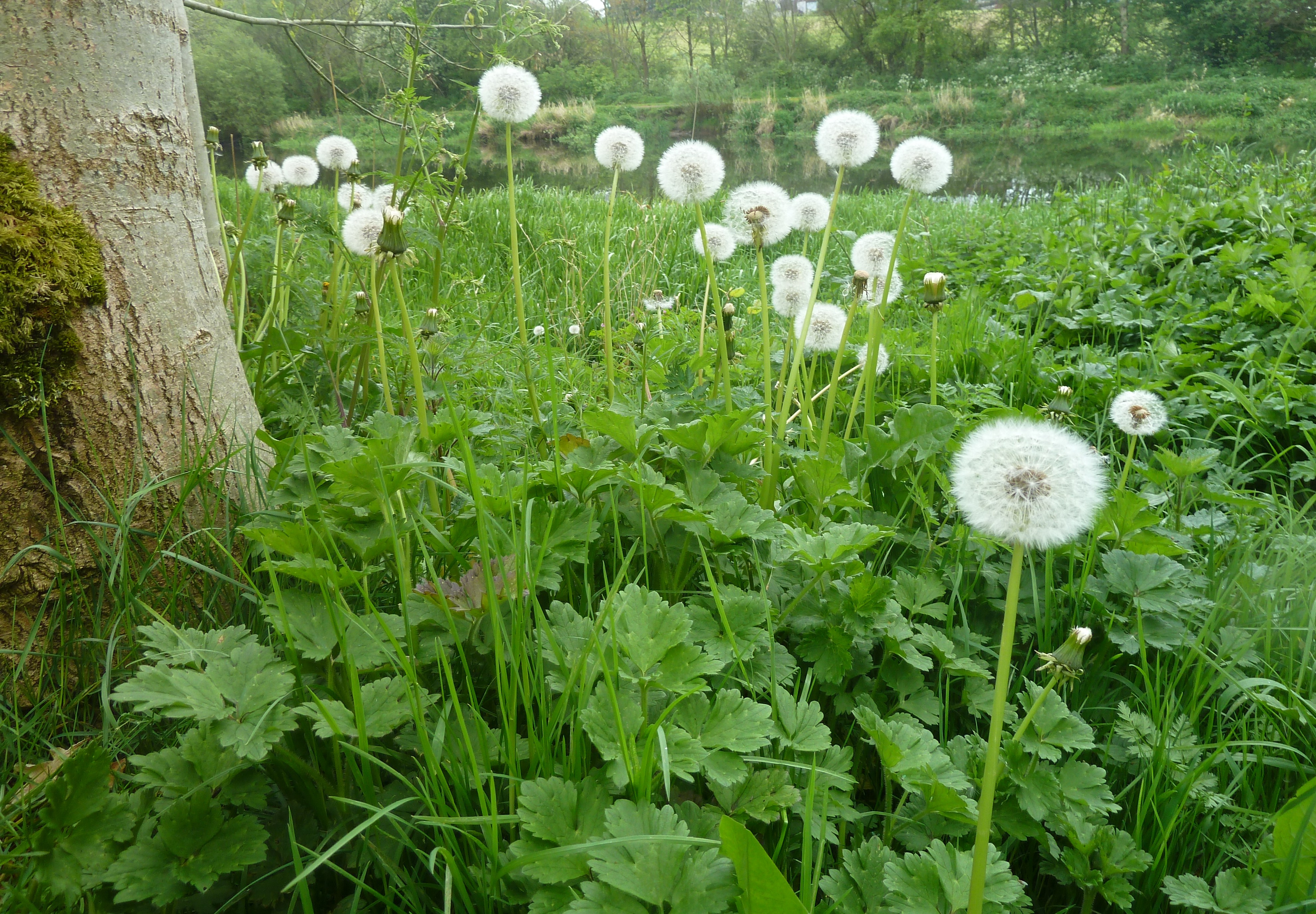 Hilden, Co. Antrim Ireland Taraxacum August